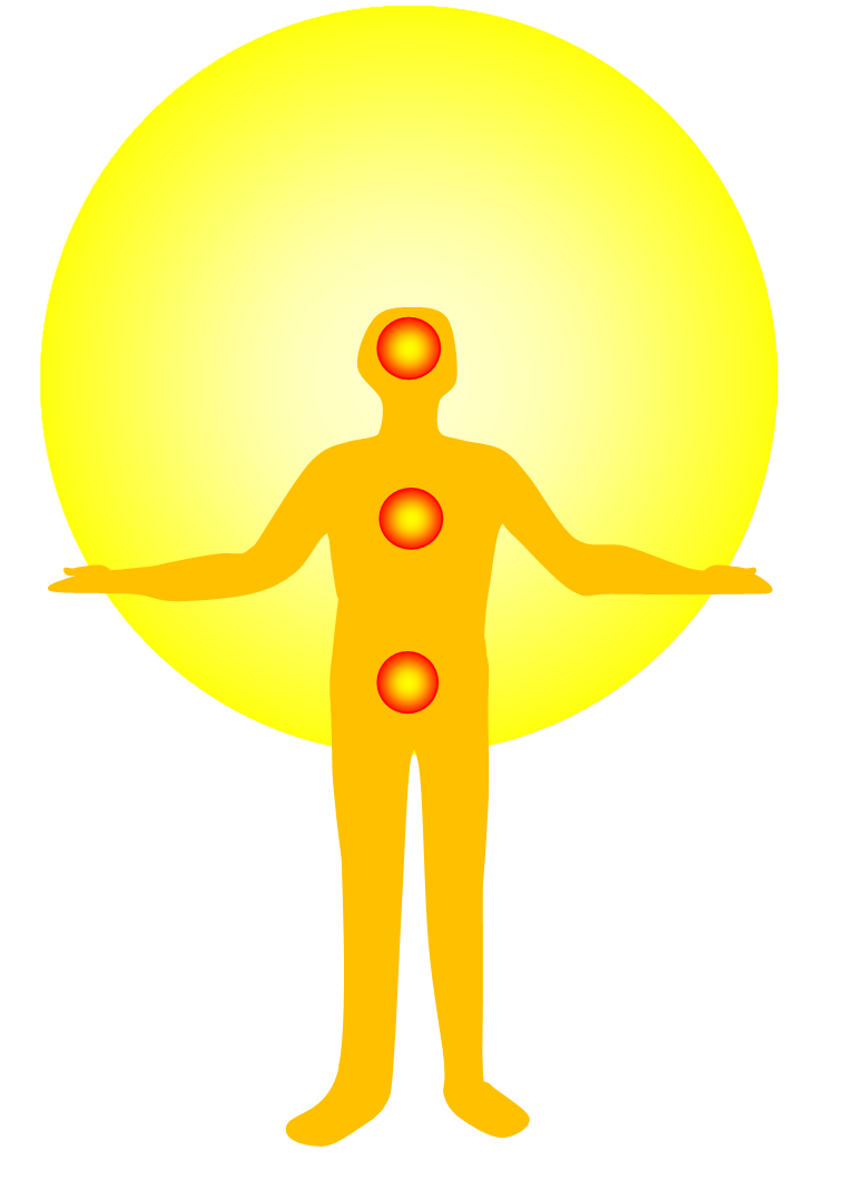 Dantians in the human body. Some data about the approximate locations of dantians: Chang, Stephen Thomas (1998) Popolni sistem samozdravljenja. Taoistične notranje vaje, Ljubljana: Tomark, pp. 220 (1991) The way of energy: mastering the Chinese art of internal strength with chi kung exercise, New York: Simon Schuster, pp. 42-43. ISBN: 978-0-671-73645-3. Yang, Jwing-Ming. (1989) The root of Chinese Chi kung: the secrets of Chi kung training, Yang's Martial Arts Association, pp. 157. ISBN: 0-940871-07-6. Jarmey, Chris. (2005) The Theory And Practice Of Taiji Qigong, North Atlantic Books., pp. 29. Reid, Howard (1994) The Book of the Martial Arts: Finding personal harmony with Chi Kung, Hsing I, Pa Kua and T'ai Chi, Gaia, pp. 24. ISBN: 1856750965. Zhang, Yu Huan (2001) A Brief History of Qi, Paradigm Publications, pp. 29. Liao, Waysun (1990) T'ai Chi Classics, Boston, London: Shambala, pp. 20. Maloney Vallie, Cynthia W. (2012) Seated Taiji and Qigong: Guided Therapeutic Exercises to Manage Stress and Balance Mind, Body and Spirit, Singing Dragon, pp. 19-20.